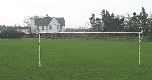 Football pitch, Bonar Bridge Between the school and Migdale Hospital (visible behind the goal)